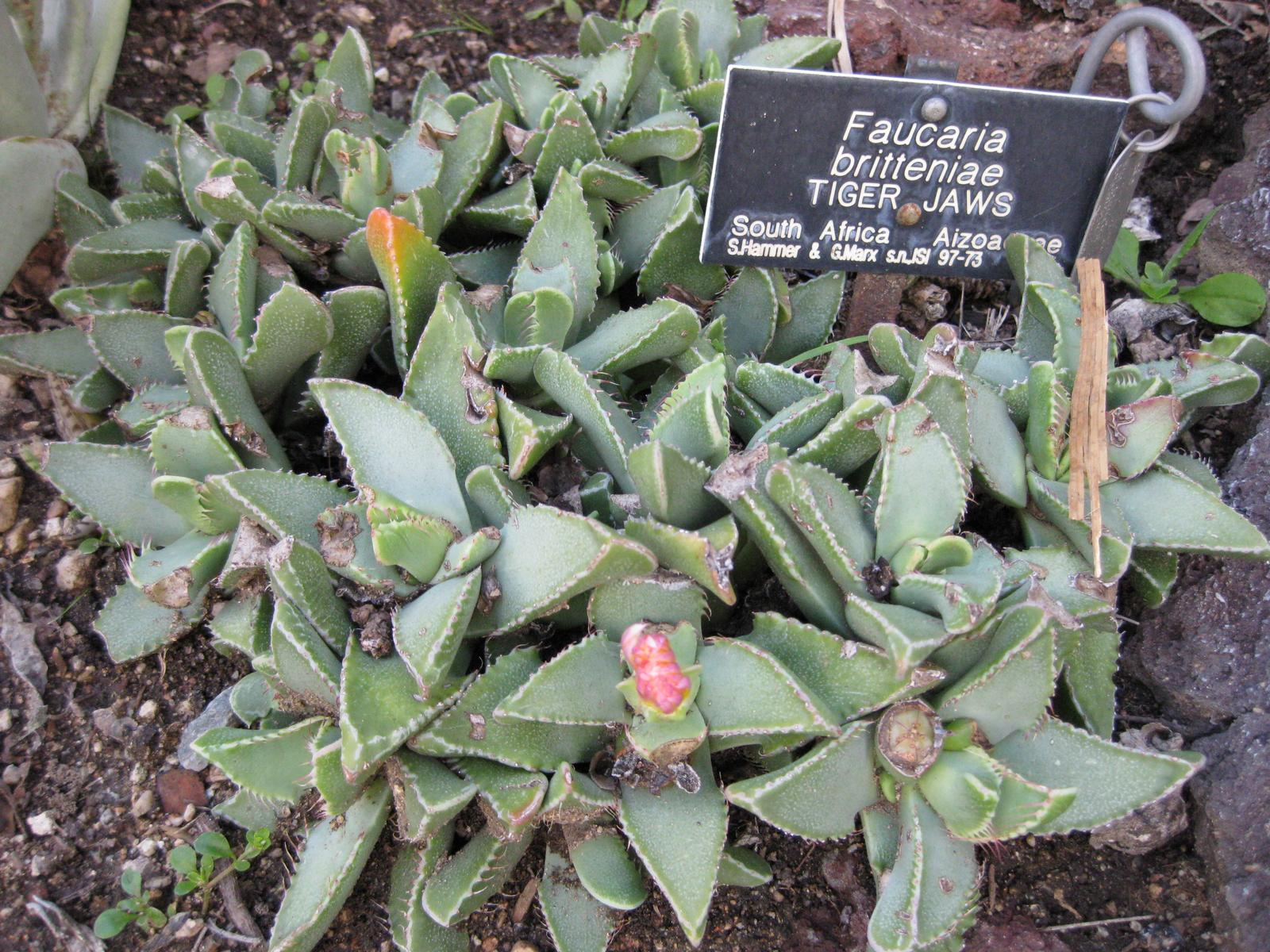 Photographed at Huntington Gardens (Los Angeles, California) in March